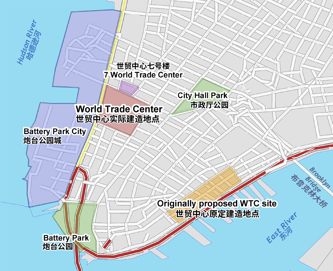 Location of the World Trade Center, and the originally proposed site.